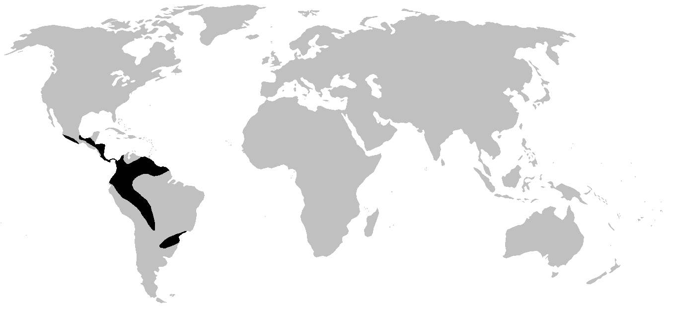 Distribution of Centrolenidae based on [1] and